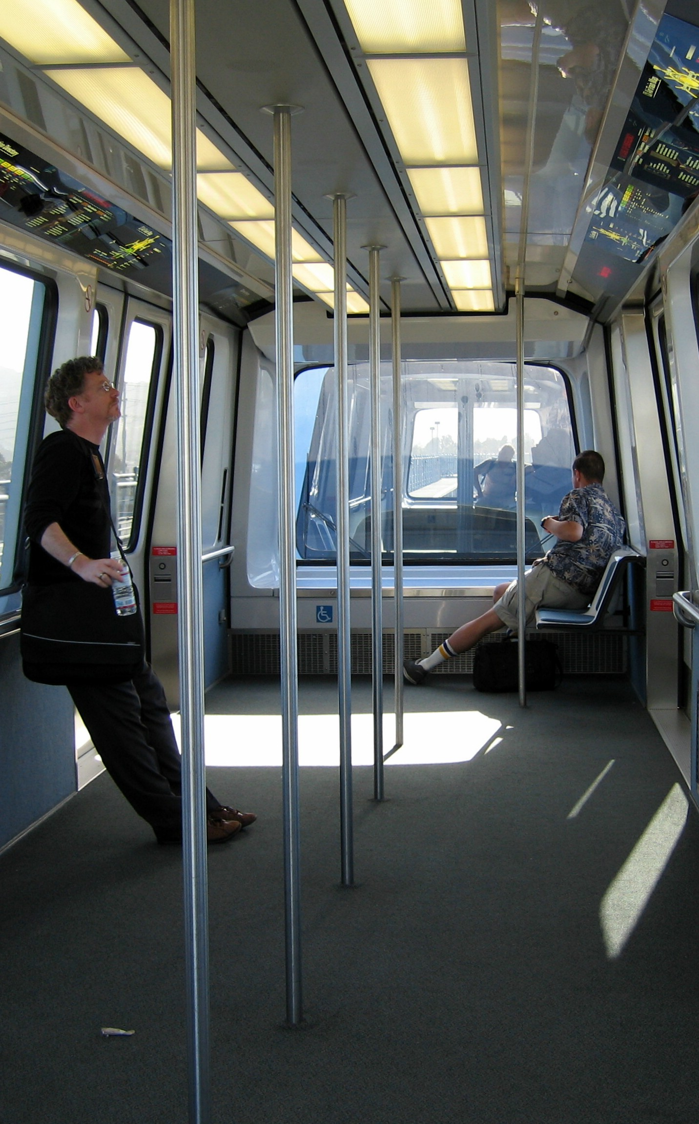 Interior of the AirTrain at San Francisco International Airport